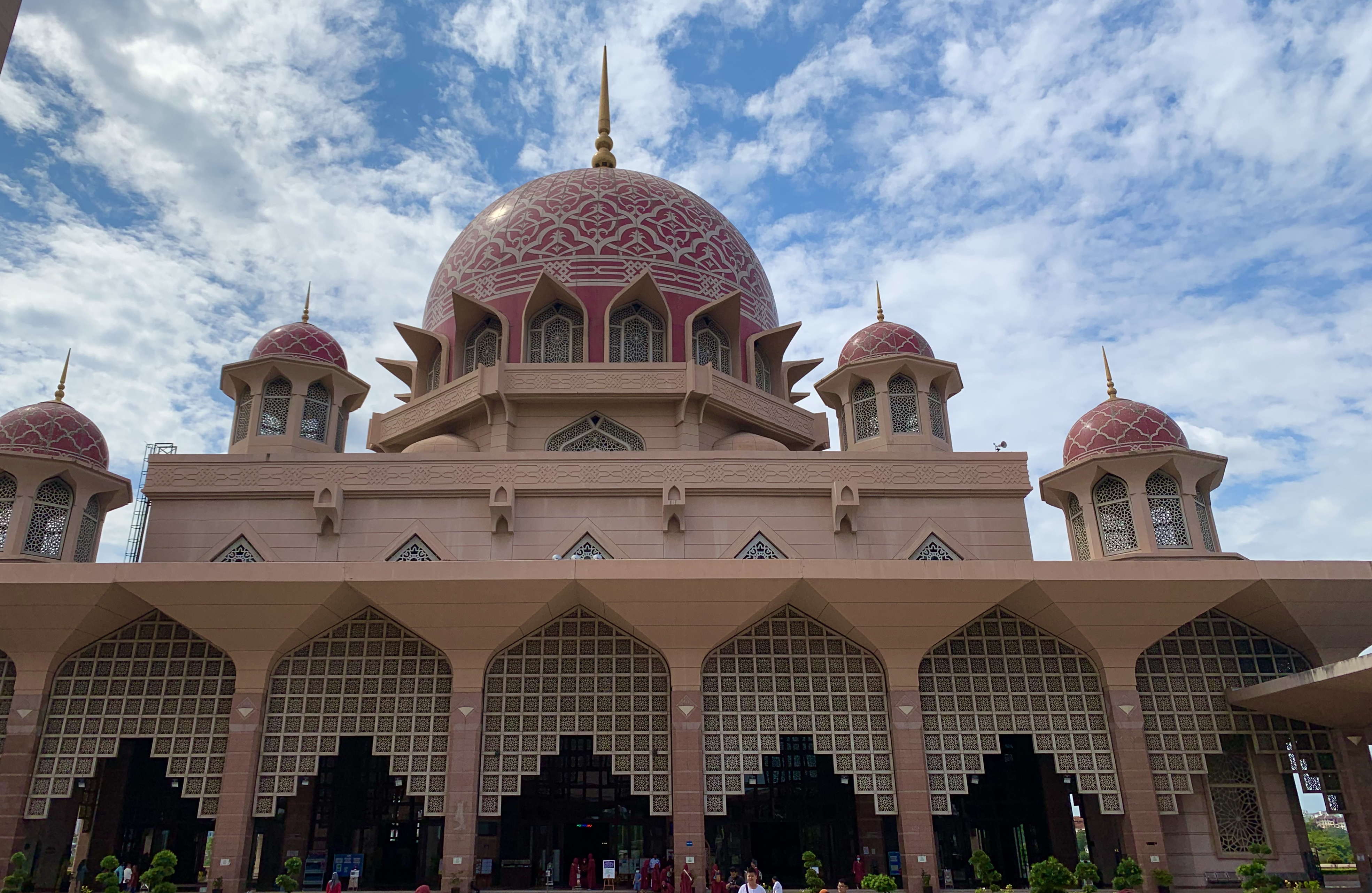 Putra Mosque main section